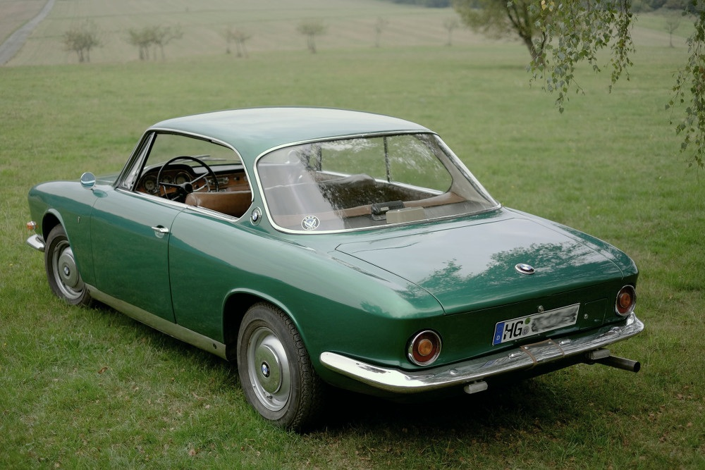 BMW 3200CS